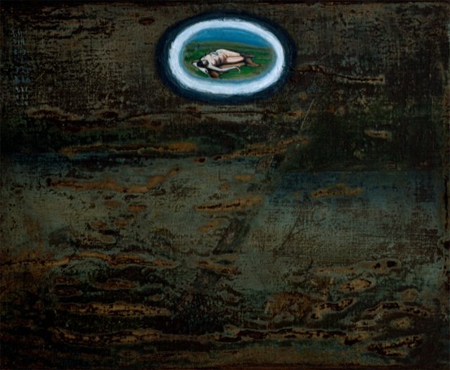 Studio Retablo: Mexican Figure 1998 - 1999 Oil on Found Painting 14.5 x 17 inches. Reclining figure